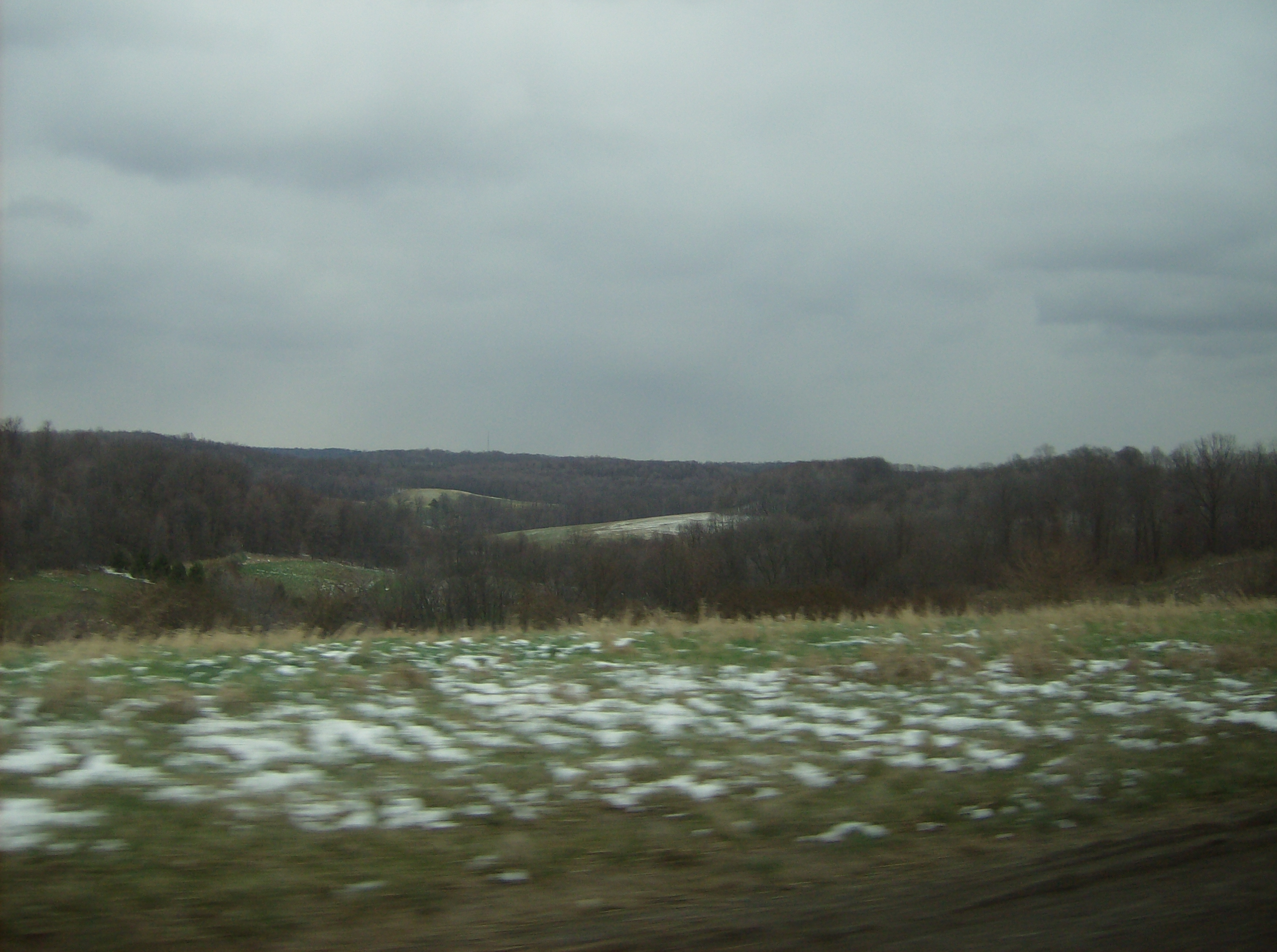 View of countryside in Lancaster Township, Butler County, Pennsylvania, United States. Picture taken from along U.S. Route 19. The area had recently experienced a very late snowfall; snow on the ground in April is exceptional for this region.